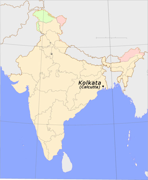 Map of India with Kolkata marked